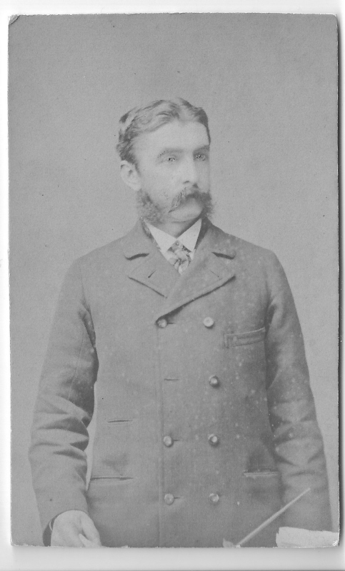 Walter Pilliet (1840–85) was a 19th century Member of Parliament in Christchurch, New Zealand.